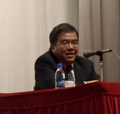 Mr Anthony Ting-yuk Wu, who is currently the Chairman of Hospital Authority, at General Assembly of Journalism & Communication Department, Hong Kong Shue Yan University.